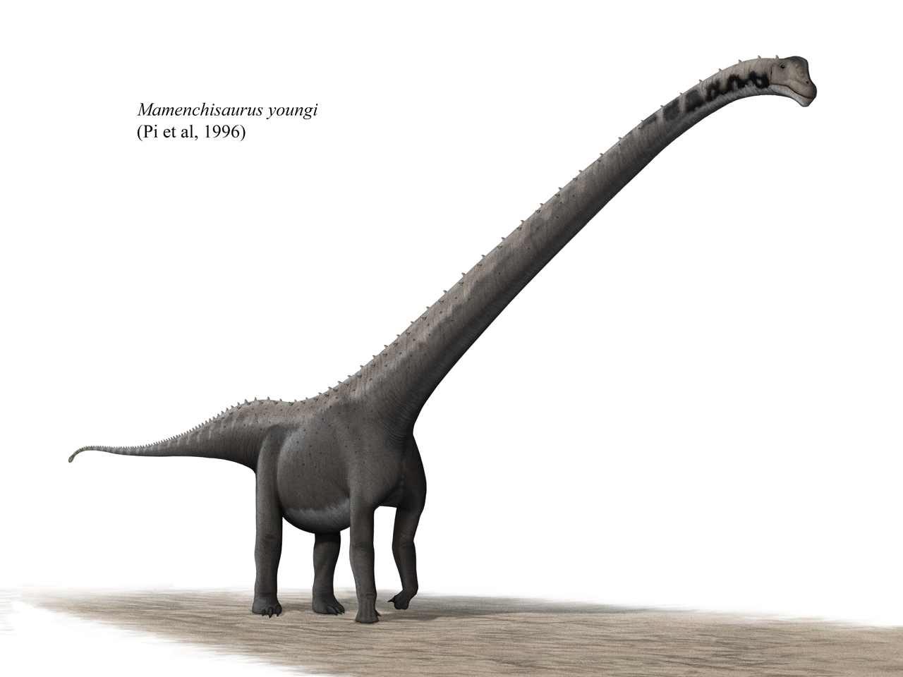 Mamenchisaurus youngi restoration, • Based proportionally on a skeletal reconstruction by Scott Hartman. [1] Retrieved online May 29, 2007. • How flexible Sauropod necks are and how they were carried in life is a debatable issue. In this image the neck is posed, approximately, in the Osteological Neutral Pose (ONP) as determined by Hartmans skeletal. This is were all the vertebra are 'Neutrally' articulated, with no delfection up or down. • The dermal (skin) structures and spines are not known for Mamenchisaurus but are known in other sauropods. The dermal features have been based on those describled for a Diplodocid in the ‘Encyclopedia of Dinosaurs’ 1997 by Currie and Padian. Their placment/arrangement on the body is speculative. • The colours and/or patterns, as with nearly all reconstructions of prehistoric creatures, are speculative. NOTE: I often update my images. If you want to have any of my images on a website, please (if possible) don’t host/save it to the website server. I’d prefer it if the image's Wikimedia URL is used. This means that if I update an image, it will be updated on the site as well. Thanks.